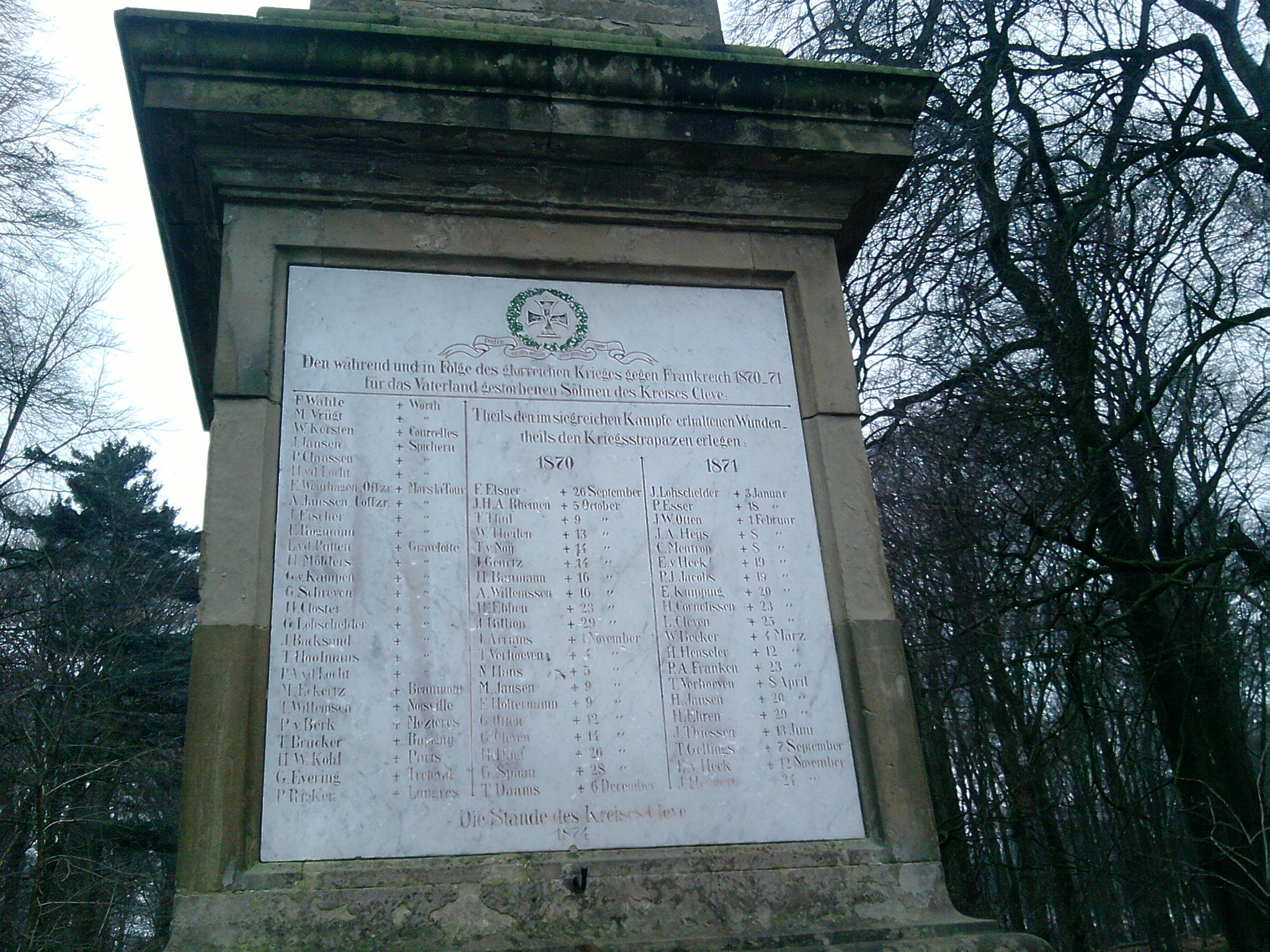 Franco-Prussian War memorial, near the Forstgarten, Kleve